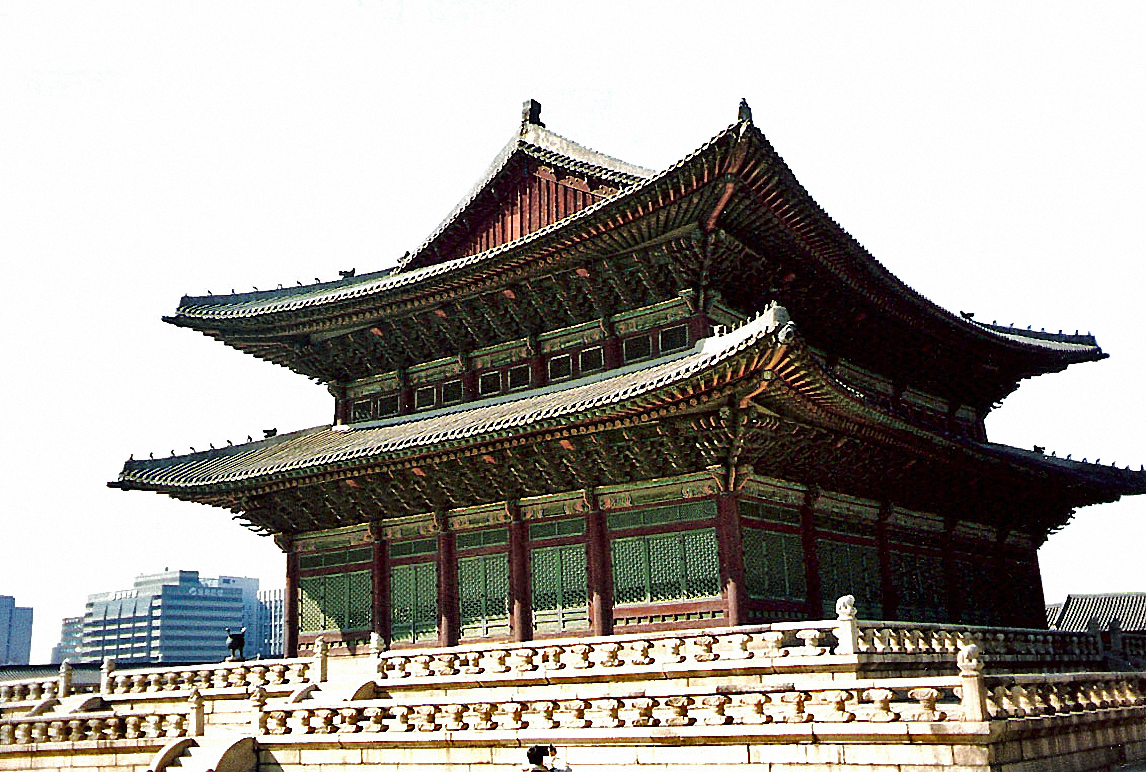 Geunjeongjeon throne Hall in Seoul